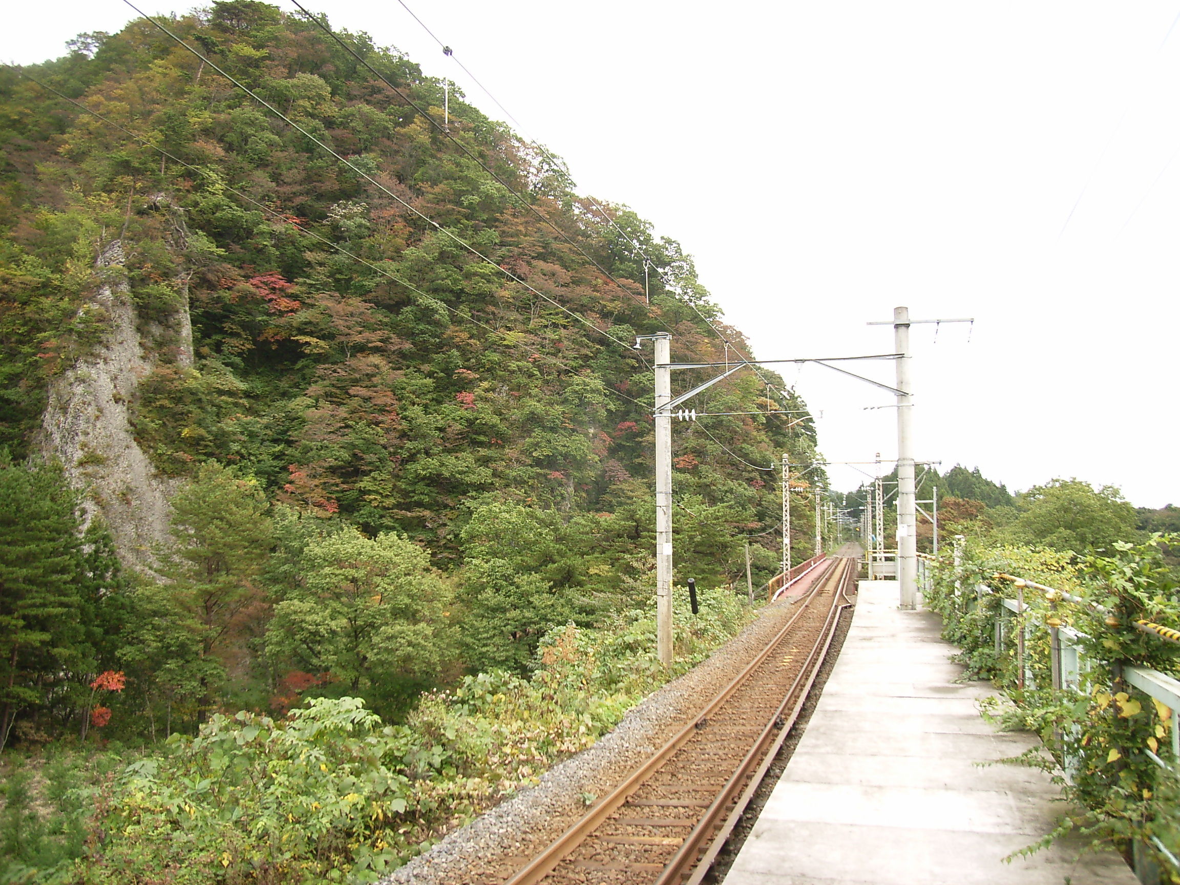 Yatsumori Station of the Senzan Line. Nikkawa, Aoba ward, Sendai, Miyagi prefecture, Japan. From the platform of the Yatsumori Station, toward east. Nikkawa River runs under the red bridge over there. The mountain on the left is in front of the river and is 400 meters high. The elevation of the station is about 290 meters.